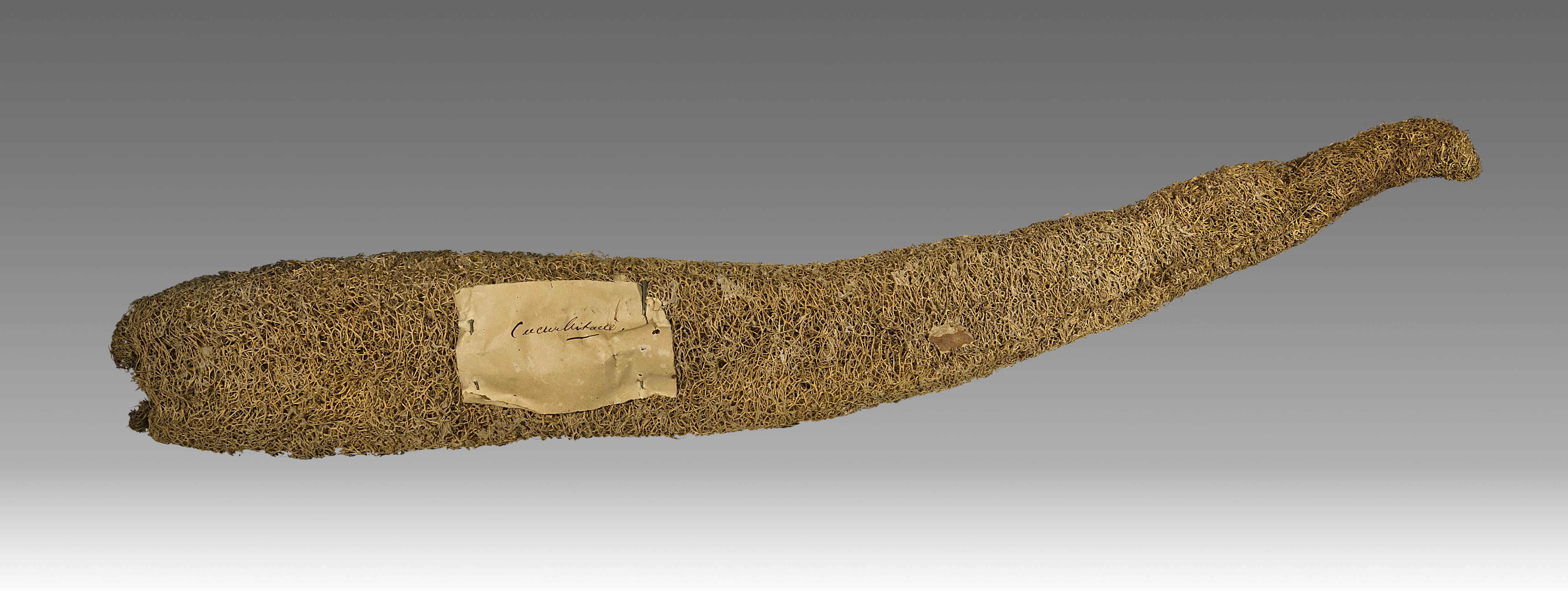 Luffa aegyptiaca - Smooth Luffa Skelleon - Old collection of de Benjamin Balansa (1825-1891) Size : 75 cm